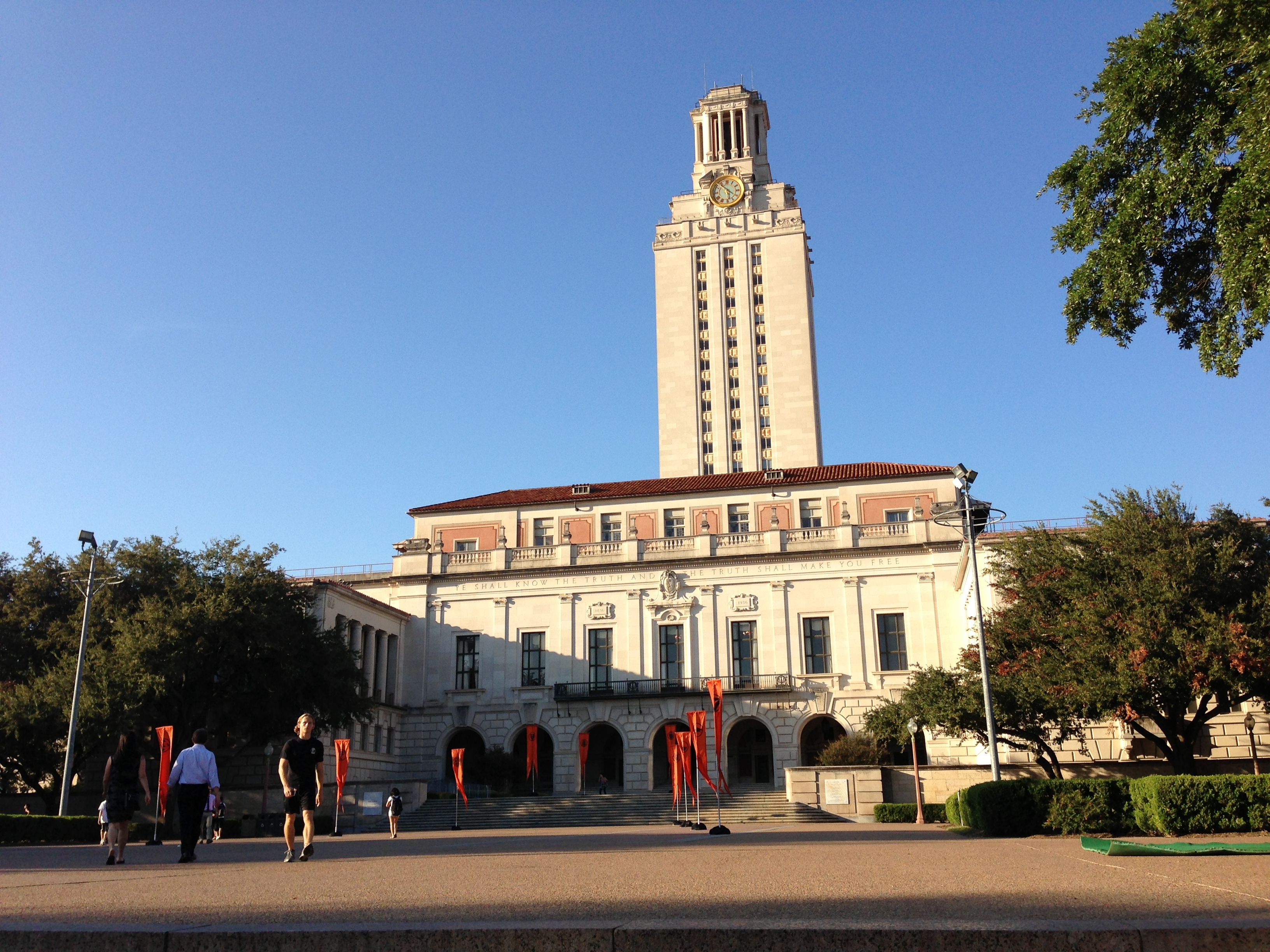 As seen from the South Mall, the main facade